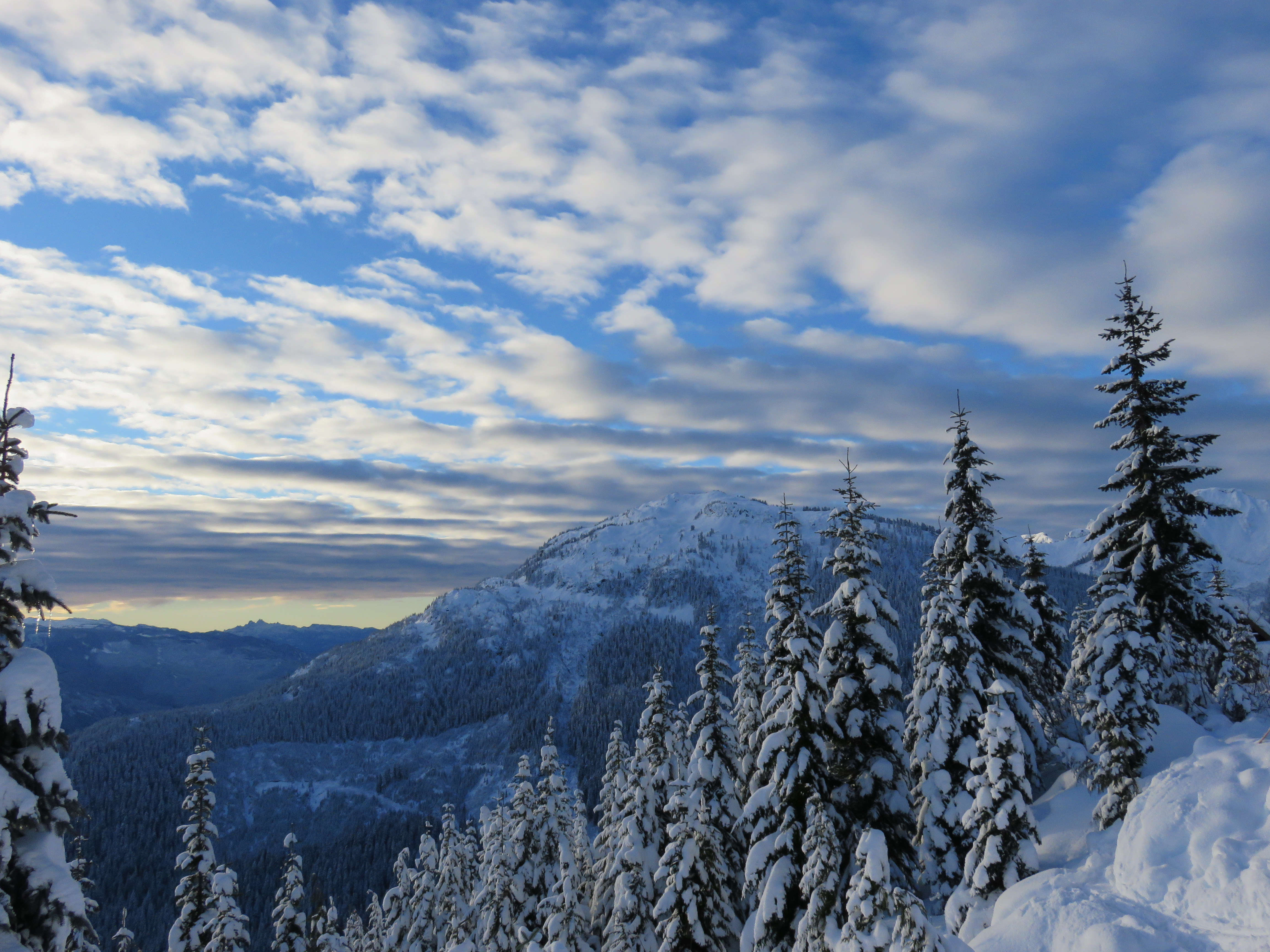 Seen from the Brandywine FSR, Callaghan Valley, BC